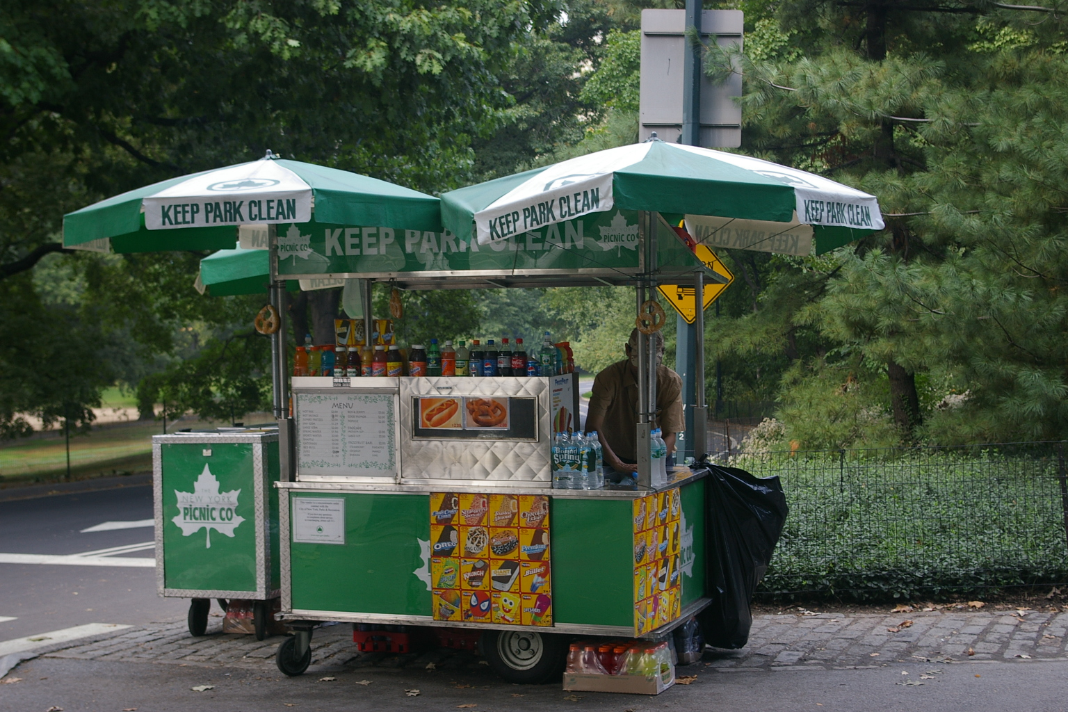 Food Vendor Stand in Central Park